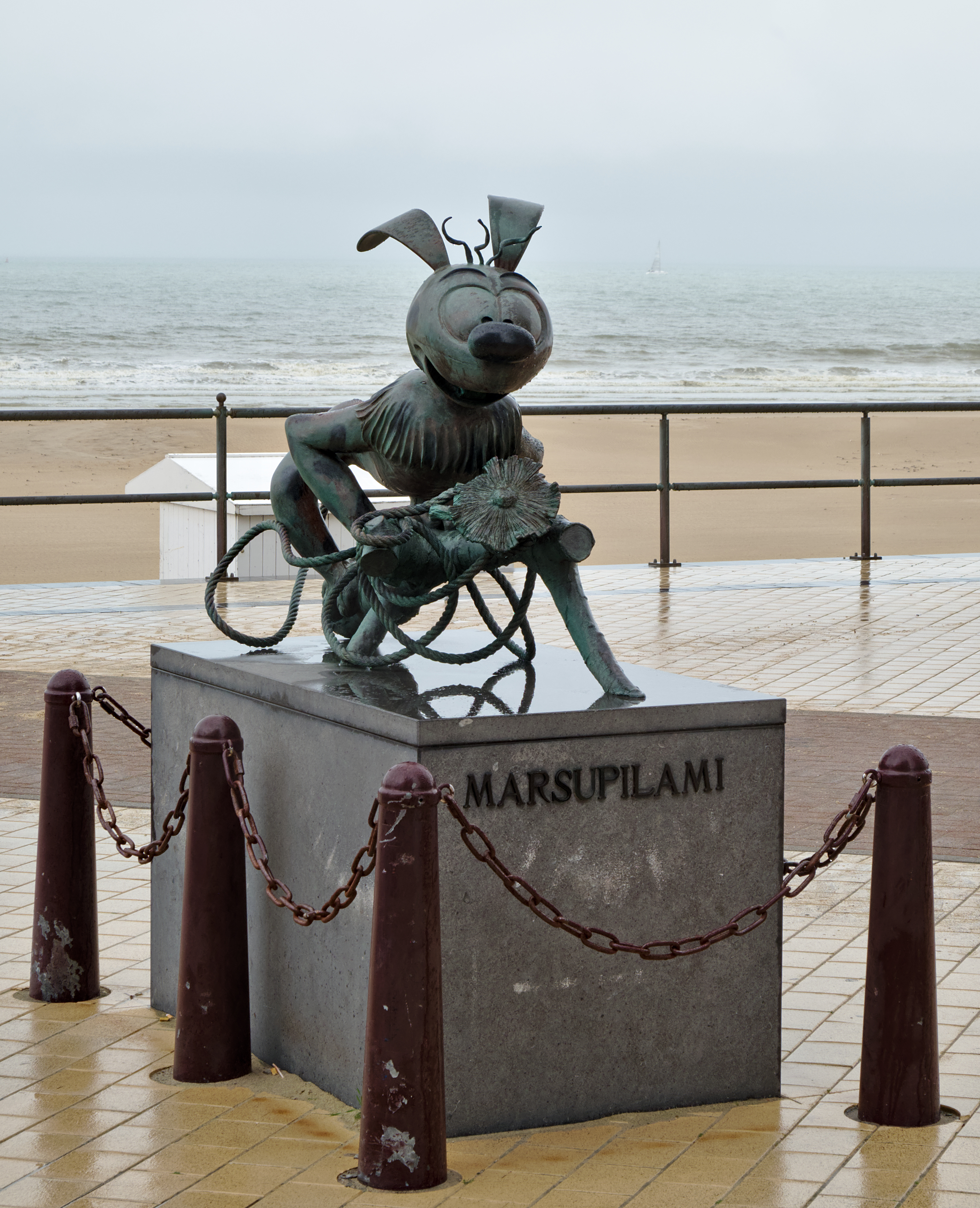 Statue of the Marsupilami by Josiane Vanhoutte in Middelkerke, Belgium This photo of immovable heritage has been taken in the Flemish Region